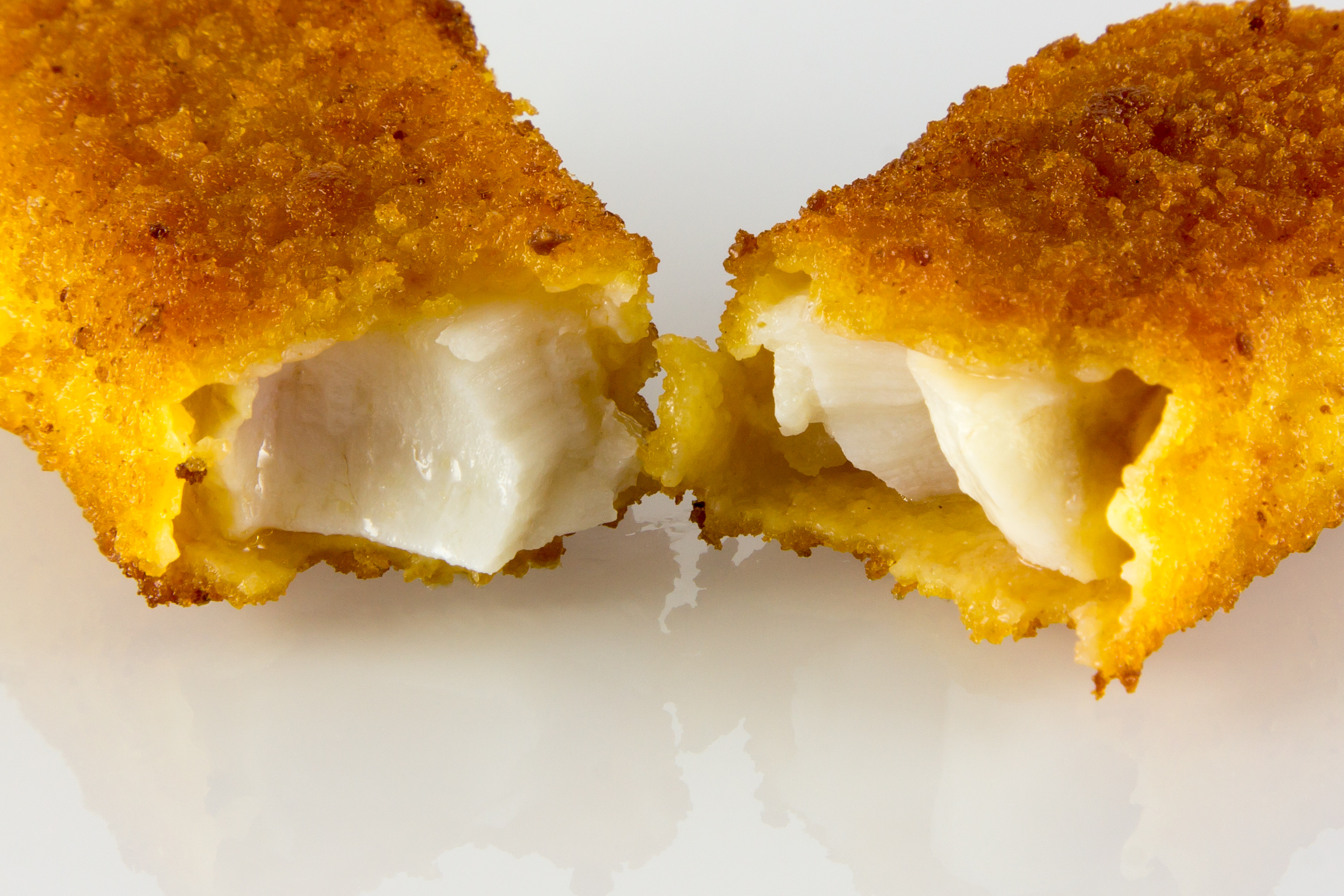 Fish-finger, fried and broken up